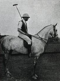 Harry Rich polo on July 3, 1901 in the Tatler